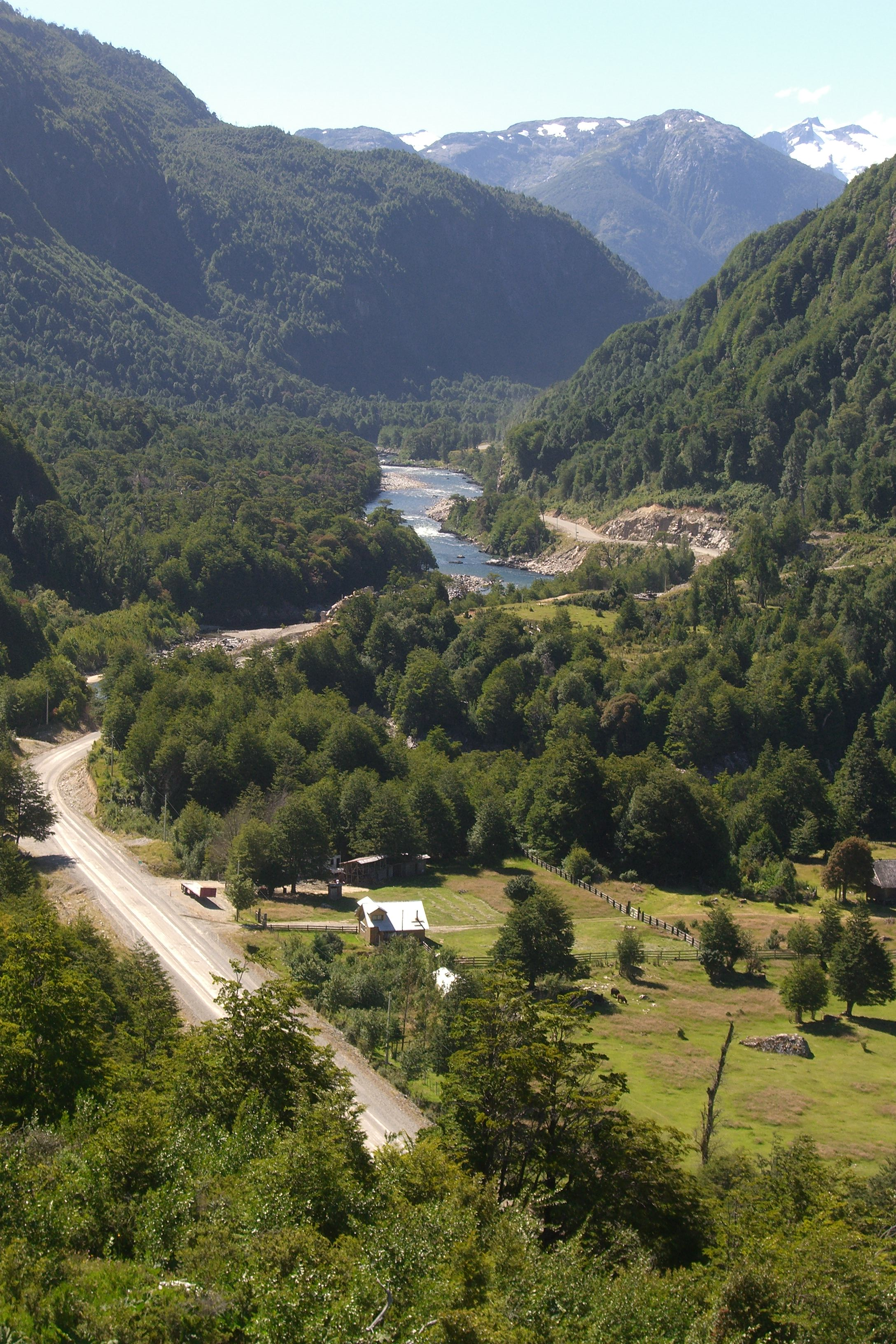 Rio Cisnes valley, maybe? It's hard to keep them all straight after a while!...